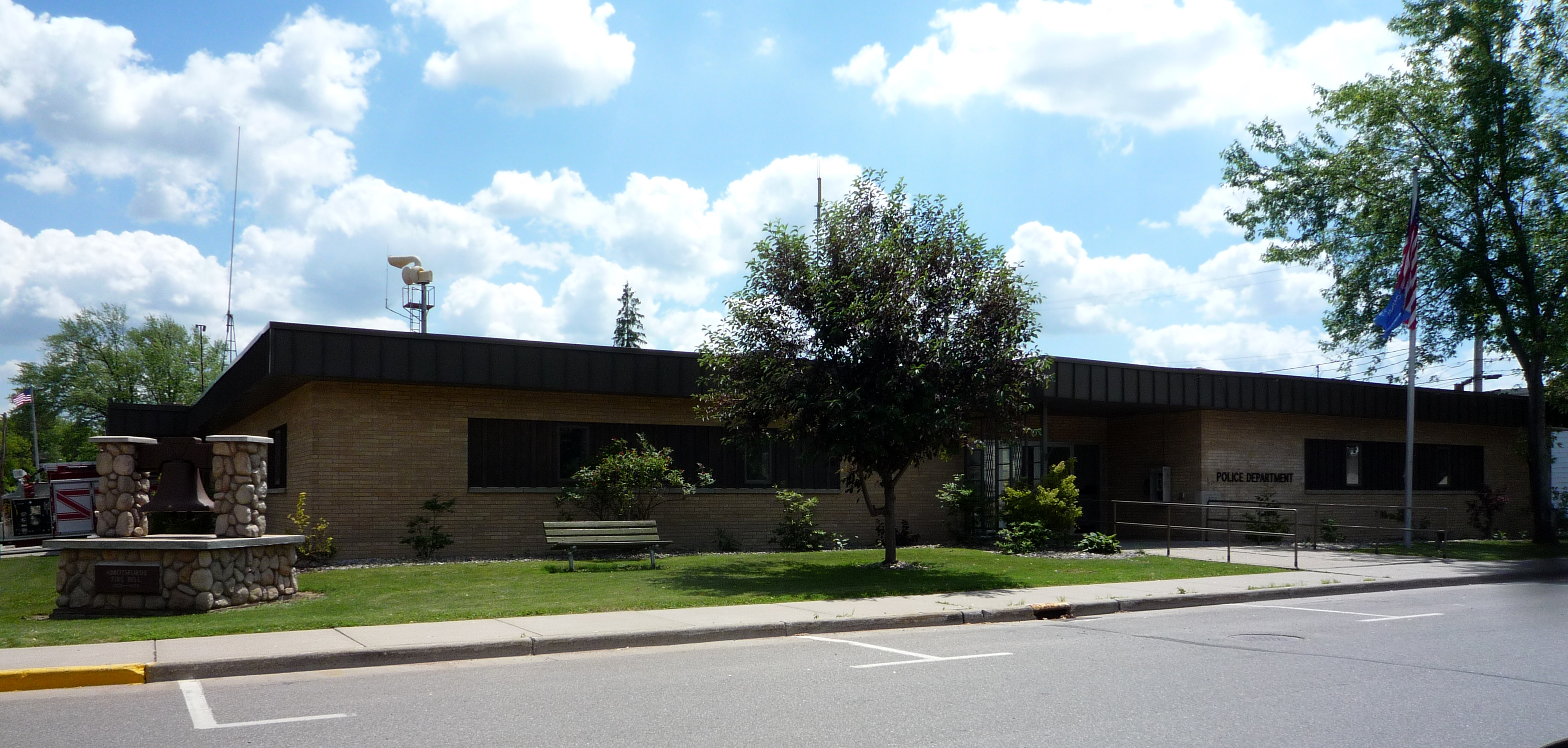 Fire Station and Police Station, Abbotsford, Wisconsin, USA.